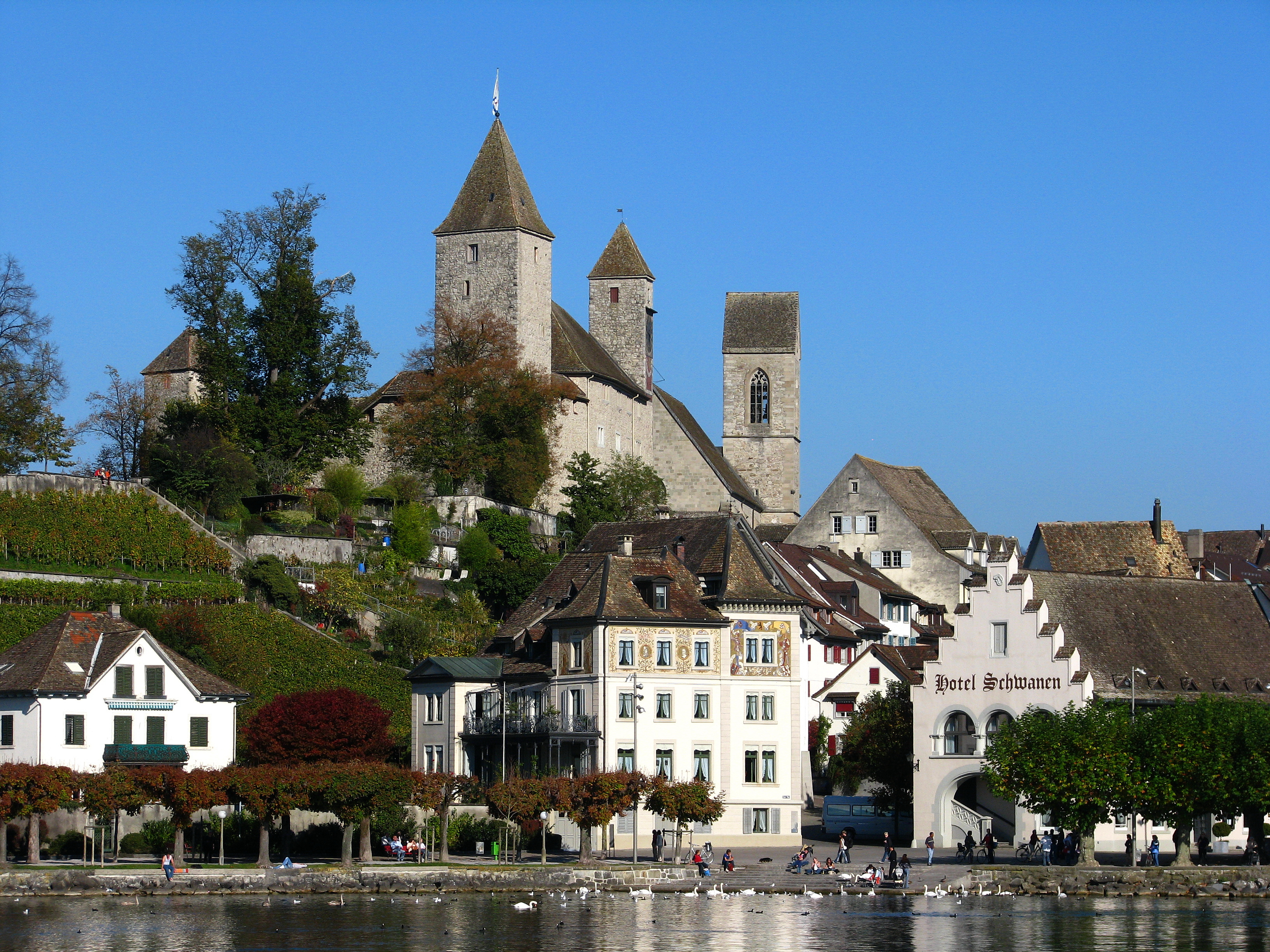 Rapperswil (SG) : Historical quarter, Schloss Rapperswil and St. John's church (tower to the right side), as seen from Zürichsee (Lake Zürich) harbour.